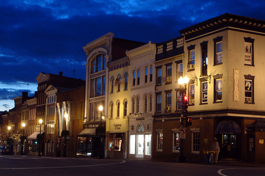 The stores at the corner of M St. and Wisconsin Ave NW in Washington DC.